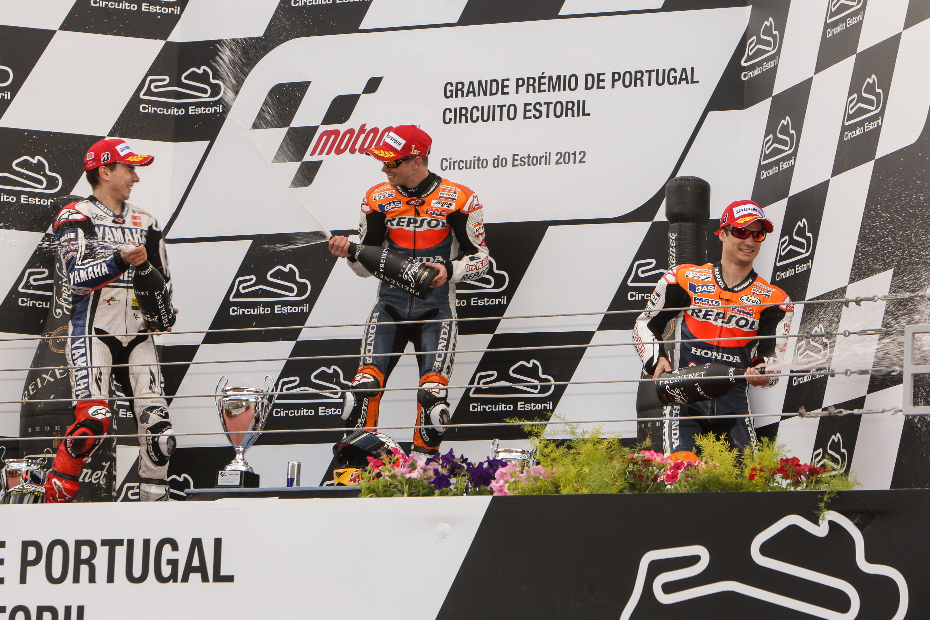 Jorge Lorenzo, Casey Stoner and Dani Pedrosa, spraying the champagne and celebrating on the podium after finishing in second, first and third place at the 2012 Portuguese Grand Prix.